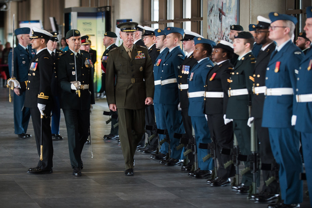 Marine Corps Gen. Joe Dunford, chairman of the Joint Chiefs of Staff, inspects members of the Honor Guard during a visit to Ottawa, Canada, Feb. 28, 2018. DoD photo by Army Sgt. James K. McCann